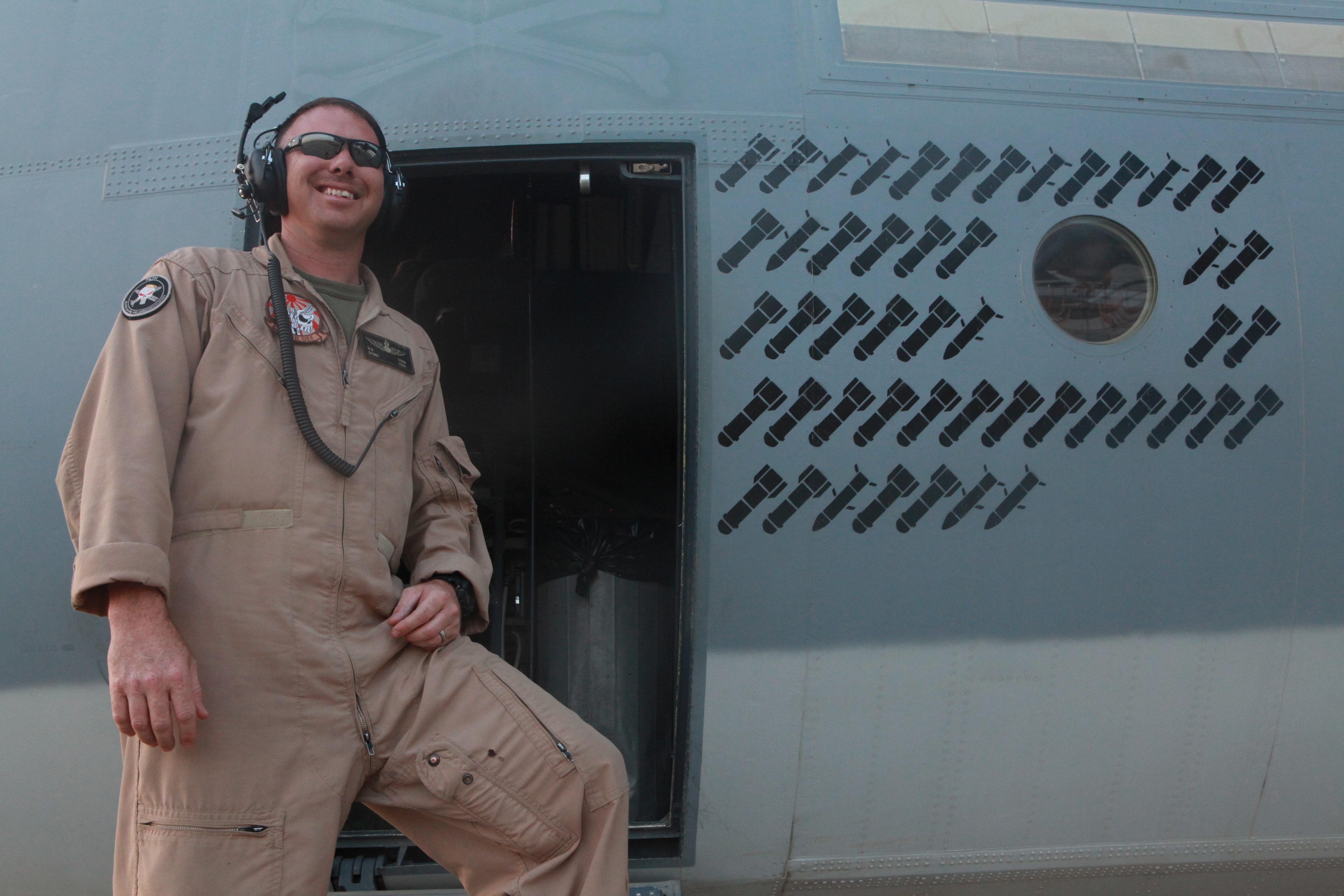 U.S. Marine Corps Gunnery Sgt. Brian D. Cook, the aviation ordnance chief with Marine Aerial Refueler Transport Squadron VMGR-252, exits the "Harvest Hawk" equipped Lockheed KC-130J Hercules (BuNo 167110). Note the mission markers indicating 39 launches of AGM-114 Hellfire missiles and 10 launches of Griffin missiles.